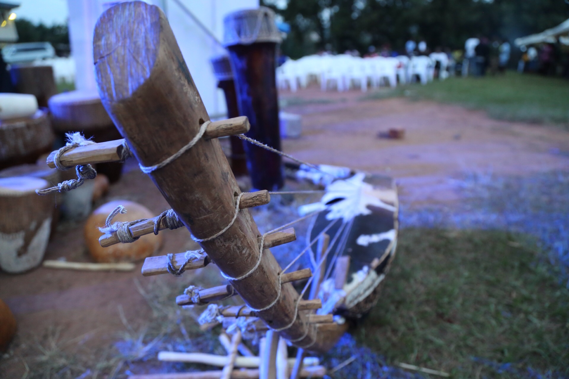 The adungu is a nine-string arched (bow) harp of the Alur people of northwestern Uganda. It is very similar to the tumi harp of the neighbouring Kebu people, and it is also used by the Lugbara and Ondrosi tribes in this northwestern region around the Nile. The harp is used to accompany epic and lyrical songs, and it is also used as a solo instrument or within ensembles. Players of arched harps have had a high social status and are included in royal retinues.